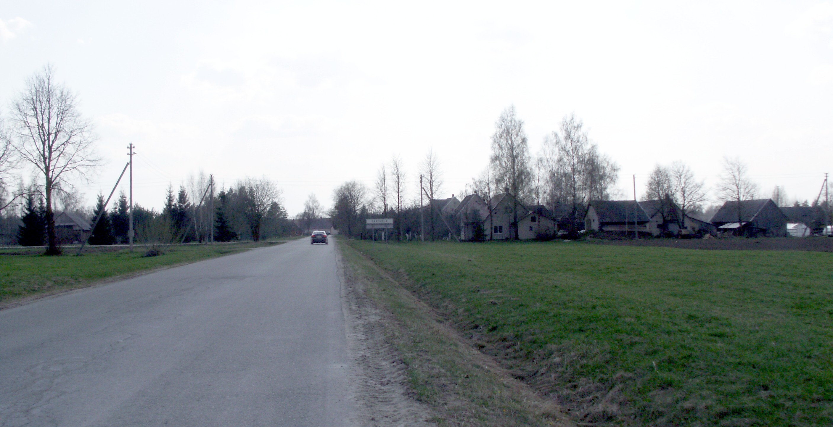 Parovėja, Biržai district, Lithuania